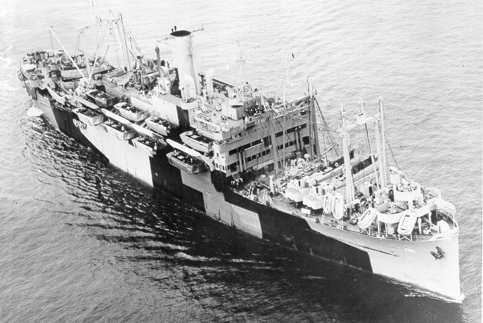 The U.S. Navy attack transport USS Leonard Wood (APA-12) underway on 28 April 1944, off the coast of southern California (USA). She is painted in Camouflage Measure 32 Design 4T.